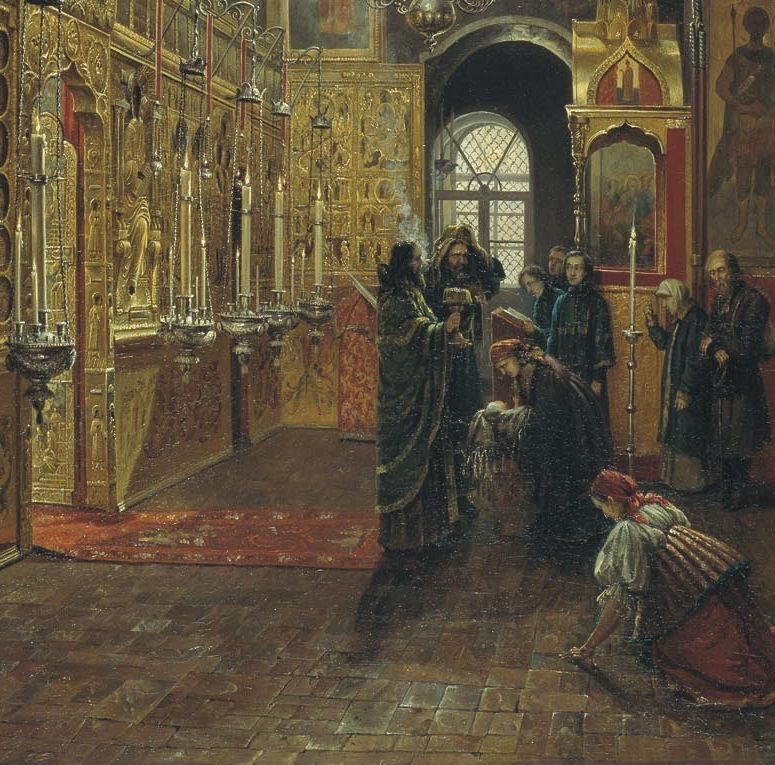 Church of St. Alexis in the Chudov Monastery of the Moscow Kremlin (detail)